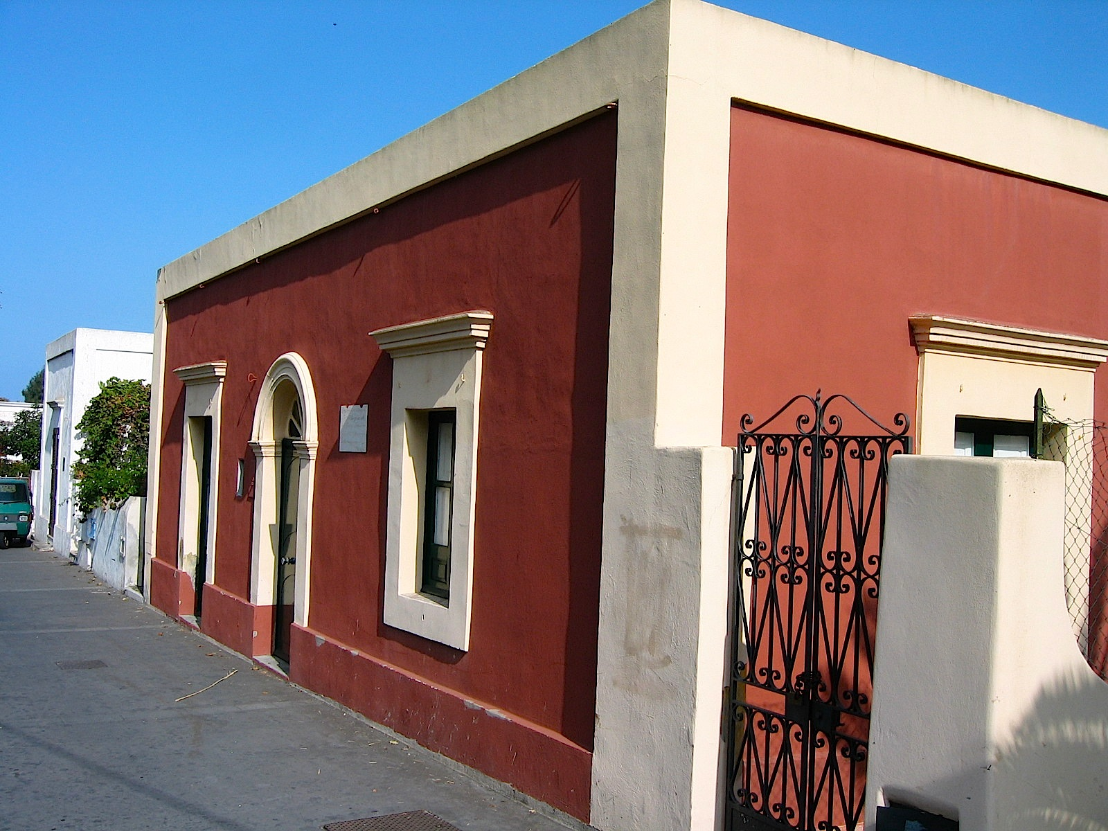 Stromboli, the house where Ingrid Bergman lived in 1949 during filming of "Stromboli"